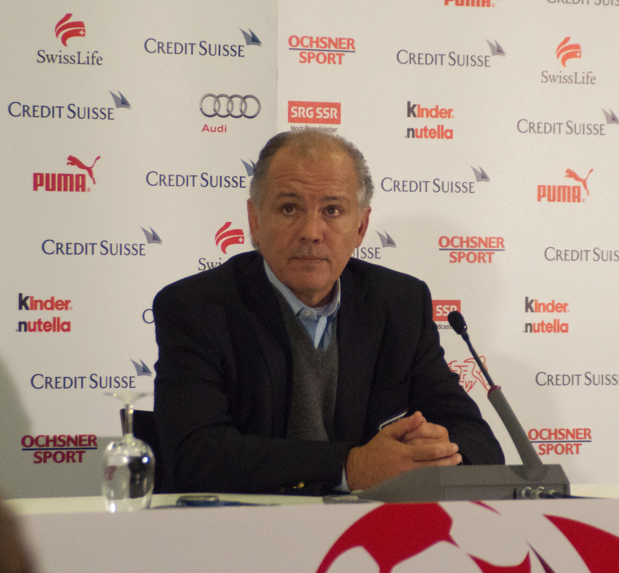 The making of this document was supported by Wikimedia CH. (Submit your project!) For all the files concerned, please see the category Supported by Wikimedia CH. Switzerland vs. Argentina, 29th February 2012